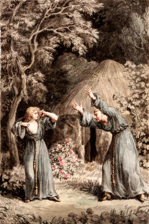 Watercolor depicting a scene from the gothic novel The Monk